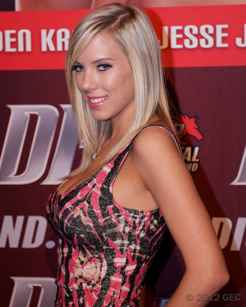 2012 AVN Adult Entertainment Expo (AEE) - Hard Rock Hotel - Las Vegas. © 2012 GEC.